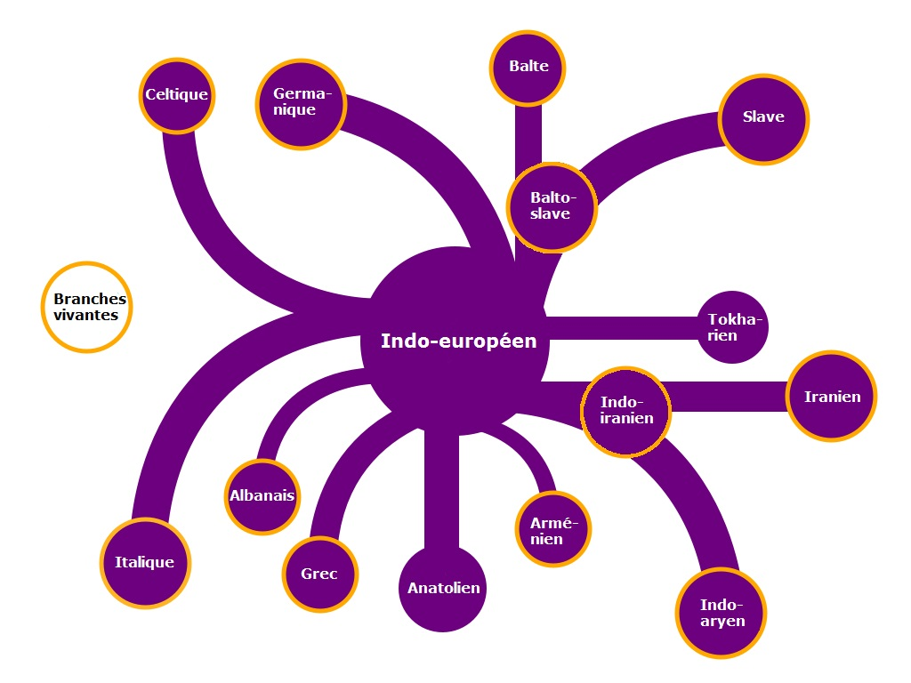 Simplified schema of the best-known branches of the Indo-European language family. French key. Modified after File:Indoeuropäisch.jpg.